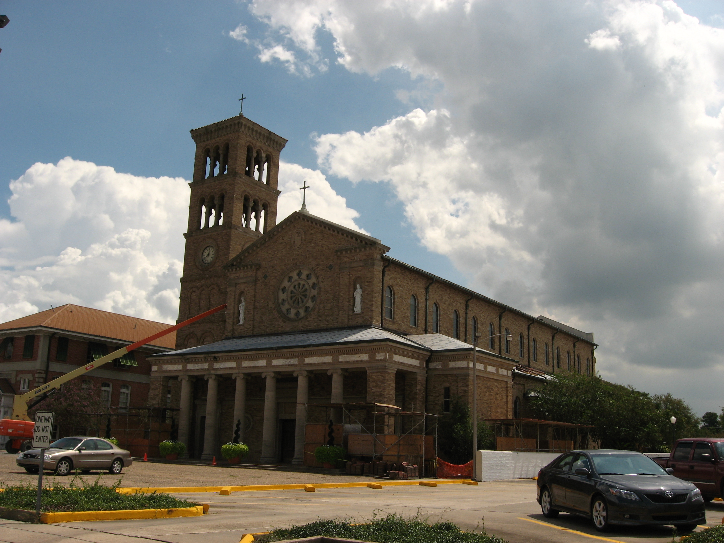 Plaquemine is a city in and the parish seat of Iberville Parish, Louisiana, United States. Brick church.